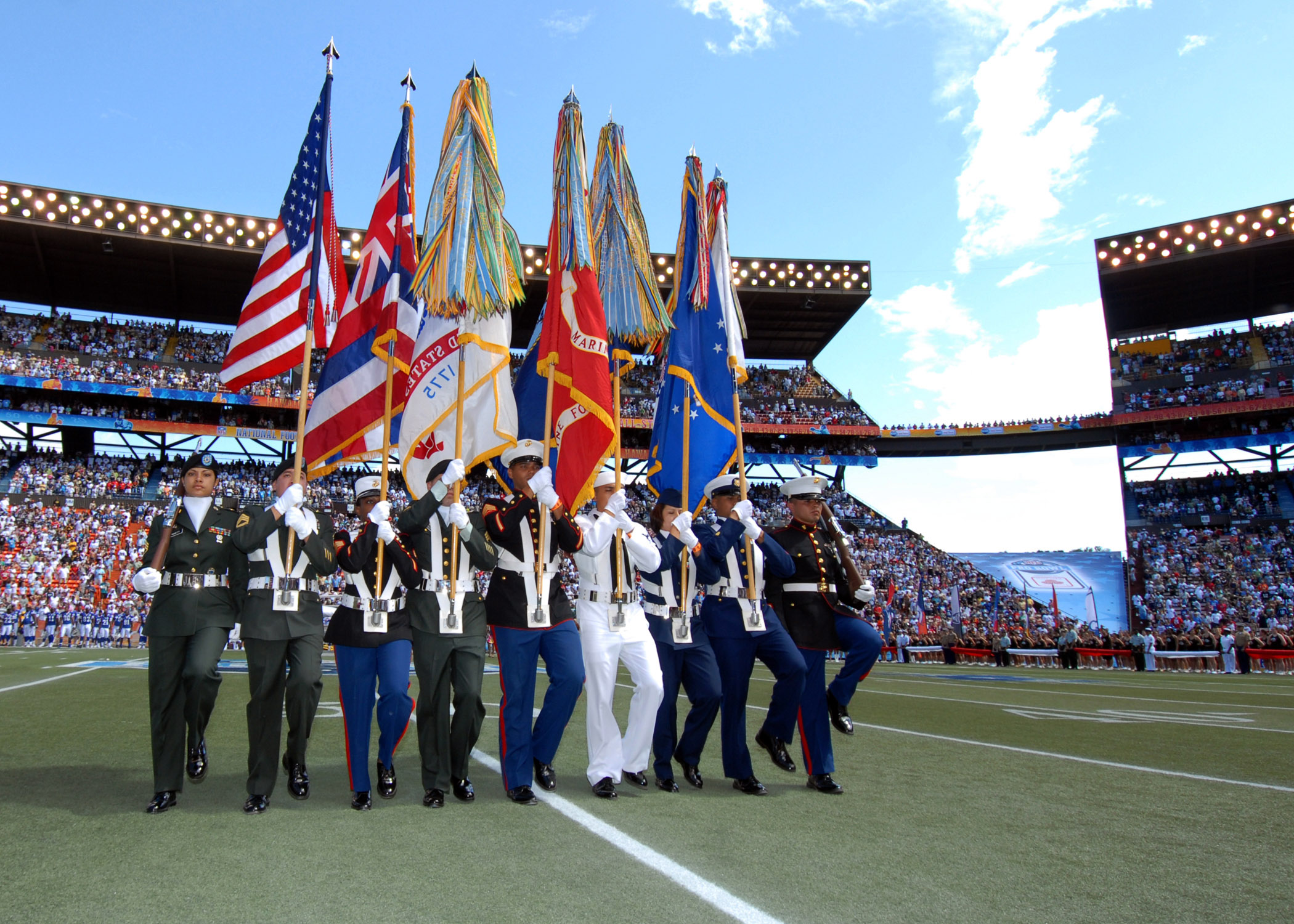 Pearl Harbor, Hawaii (Feb. 10, 2007) - A joint service color guard parades the colors at mid-field during the National Football League’s 2007 Pro Bowl game at Aloha Stadium in Honolulu, Hawaii. The American Football Conference (AFC) defeated the National Football Conference (NFC) by a score of 31 to 28. U.S. Navy photo by Mass Communication Specialist 1st Class James E. Foehl (RELEASED)